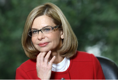 Dalia Tal Adv.